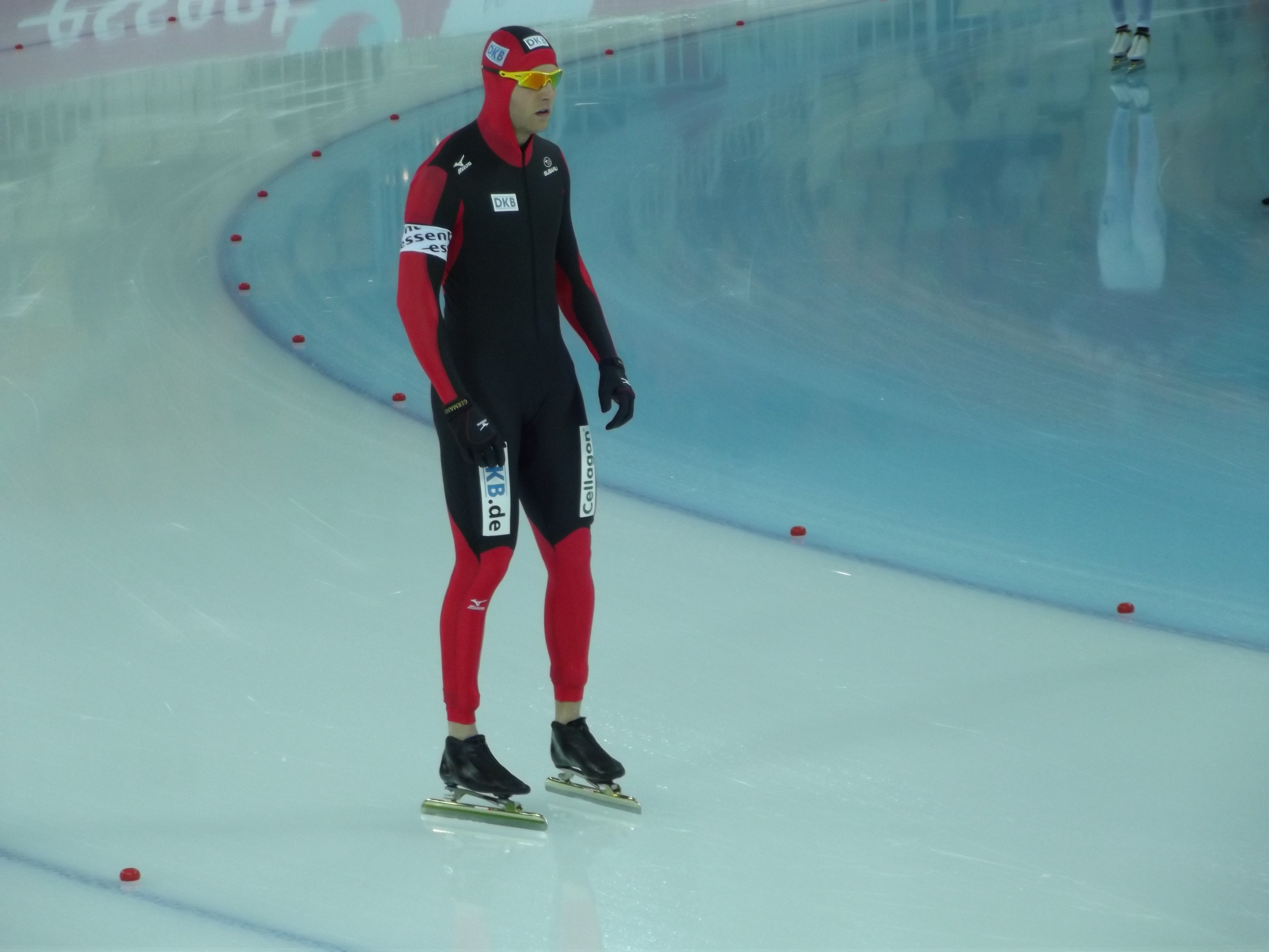 2013 World Single Distance Speed Skating Championships